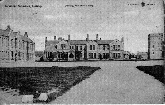 Postcard of Renmore Barracks